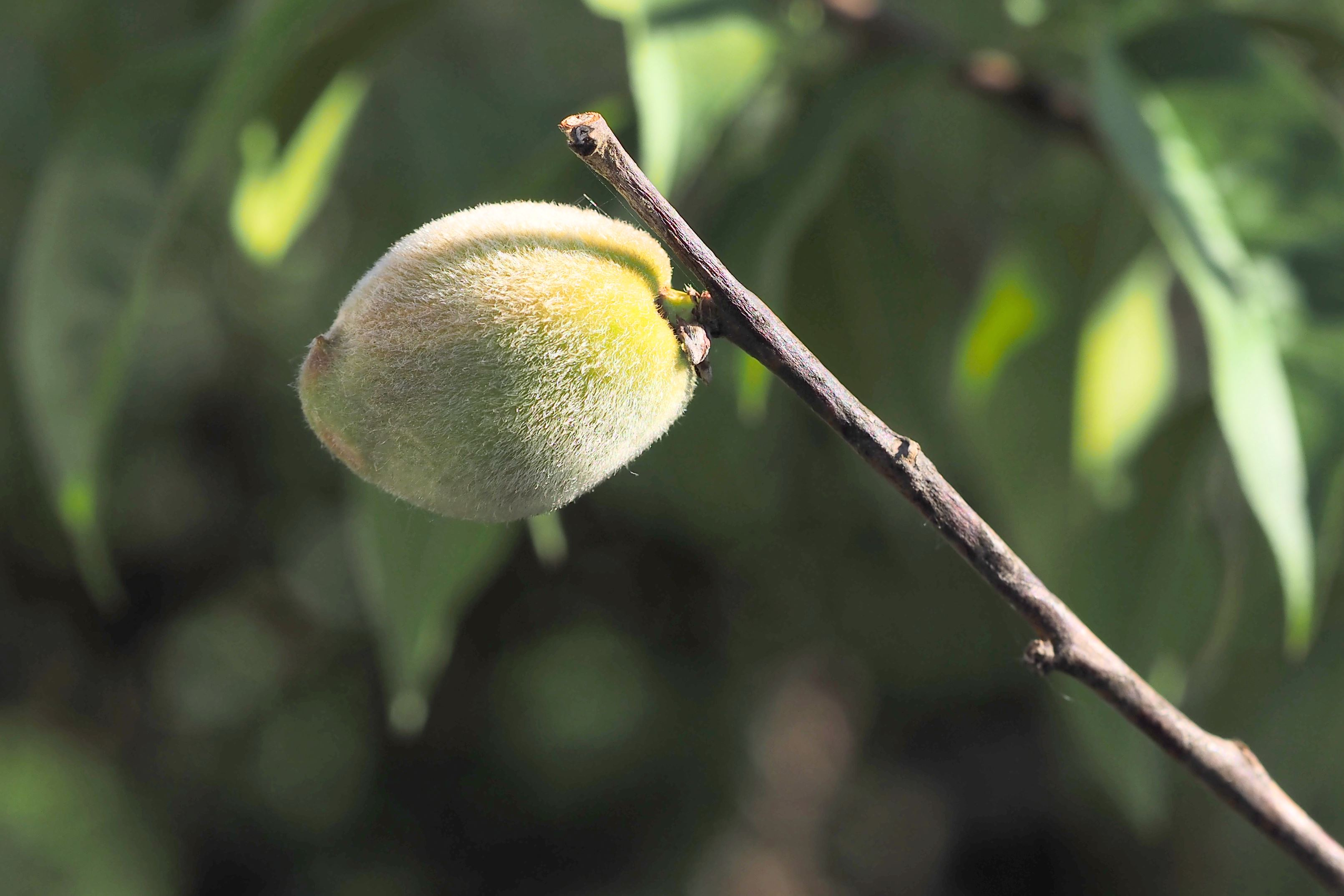 Ripening peach fruit